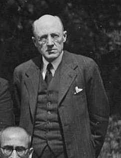 Lord Ponsonby, cropped from original. Original description: The photograph shows members of the International Council of War Resisters' International (WRI), meeting at Broederschapshuis (The Brotherhood House), Bilthoven in the Netherlands in July 1938, during the Spanish Civil War. The venue was a pacifist centre founded by Kees and Betty Boeke. The Chair of the WRI Council was George Lansbury MP (seated, centre) who was Leader of the Labour Party and Leader of the Opposition between 1932 and 1935. Identifying people in this photograph is work in progress. Names marked * are probably correct, but are as yet unconfirmed. Back row, left to right: Hagbard Jonassen (WRI Denmark), Harold Bing (WRI UK), seventh from left: Dr. Stuart D. Morris* (Peace Pledge Union), twelfth: Herbert Runham Brown (Gen. Sec., WRI), then Hem Day (Belgium) and (far right): Lord Ponsonby. Standing, eighth from left, with arms folded, Bart de Ligt.* Front row, left to right: José Brocca (WRI Spain), Ruth Fry (Treasurer, WRI), George Lansbury, Grace Beaton (Asst. Sec., WRI). Standing, immediately behind Professor Brocca and Ruth Fry: Muriel Lester.